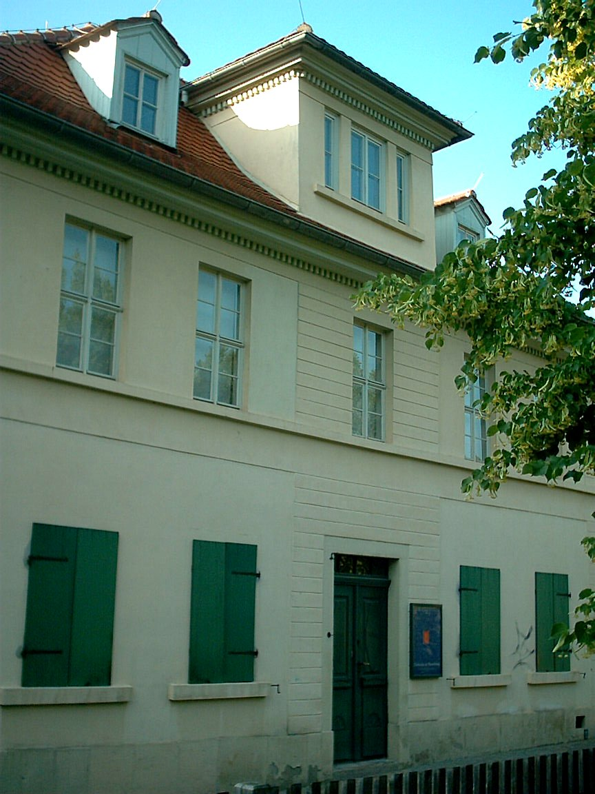 Weingarten 18 in Naumburg, Nietzsche's family's house since 1858.